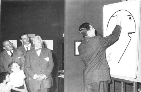 Siulnas drawing a caricature of Ramón Columba, who is watching from back.